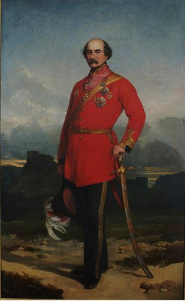 William Fenswick Williams NS House Of Assembley By William Gush (1858)